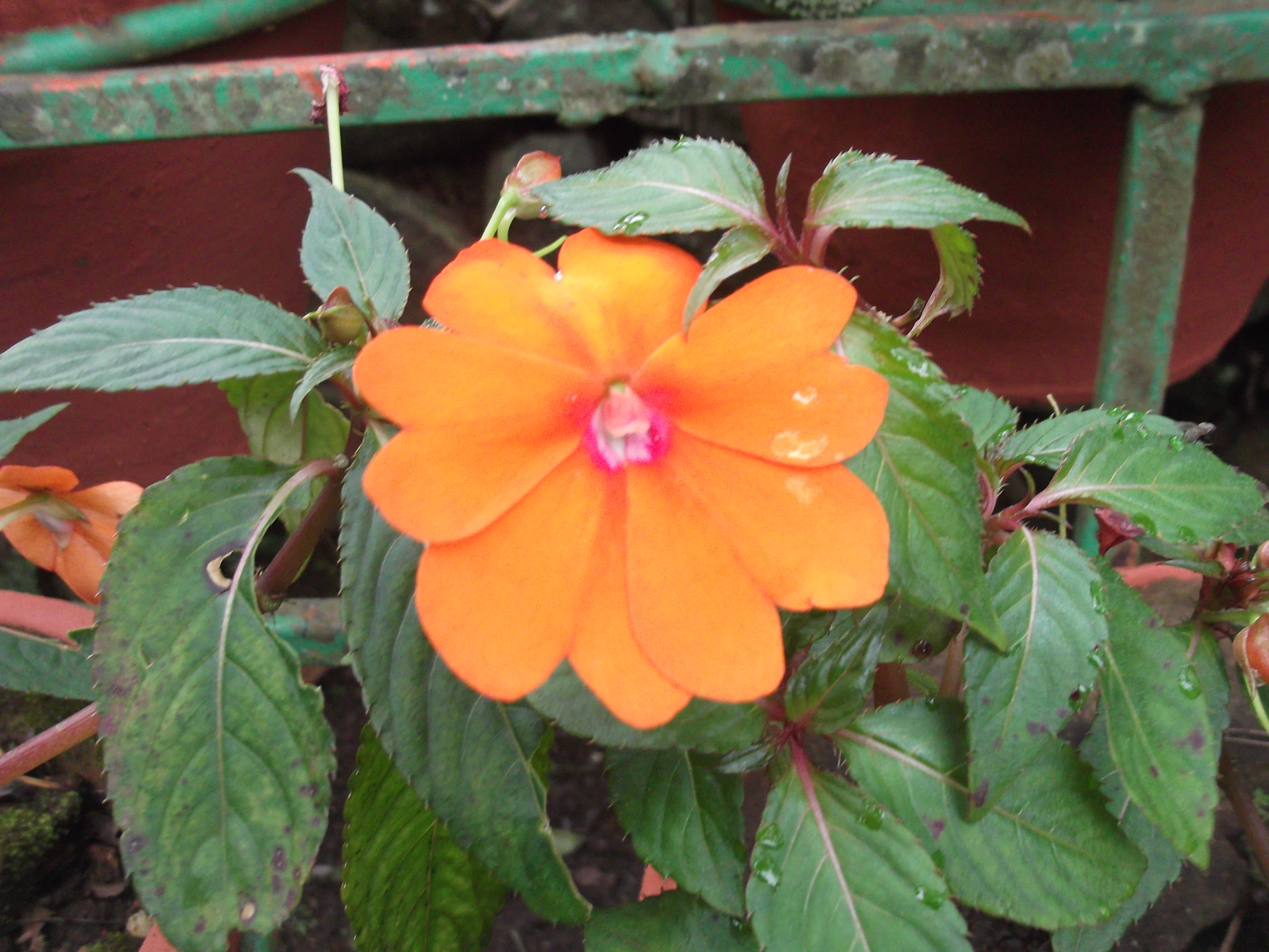 Fleshy herb,flowers orange yellow with crimson eye.